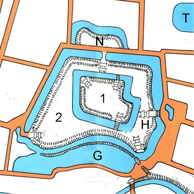 Layout of old Tsurugaoka Castle